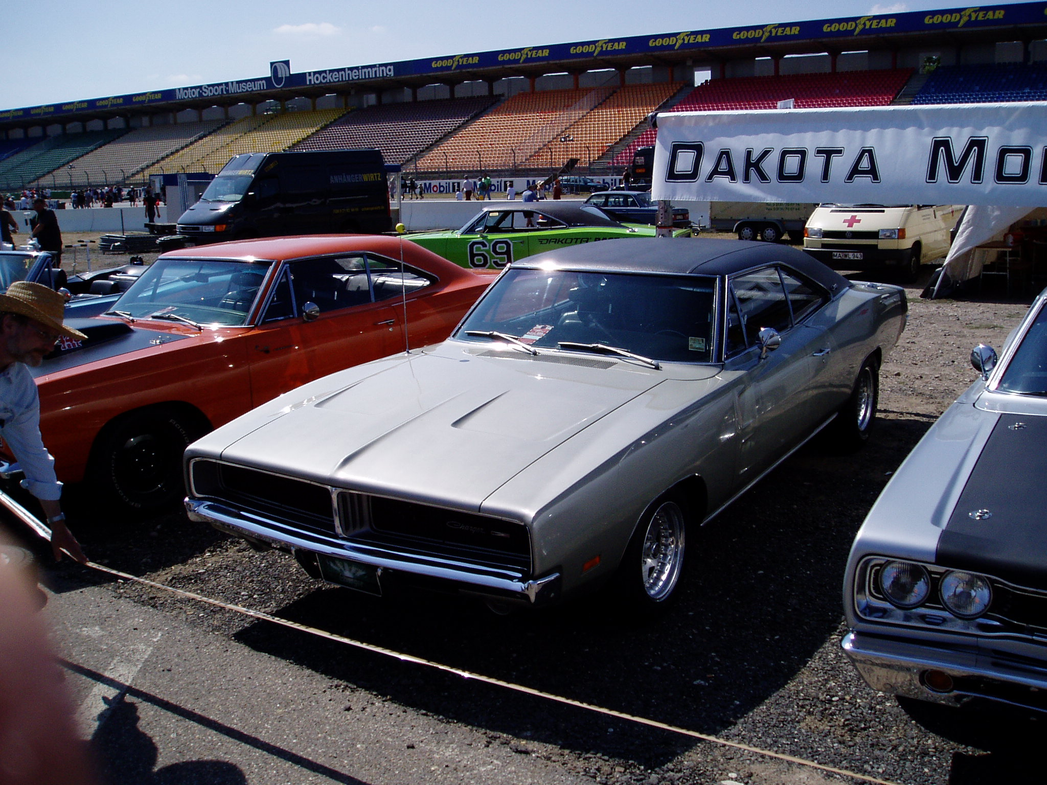 1969 Dodge Charger Photo taken at the Nitrolympics in Hockenheim, Germany by User:Owly K